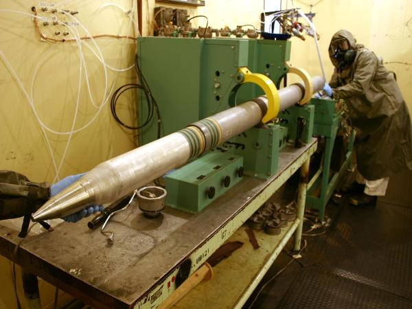 A chemical operations crew from the Umatilla Chemical Depot separate rocket motor and warhead sections on nine M55 rockets that were sent to an Army lab in Picatinny, New Jersey on June 13 for propellant sampling and analysis. Results from the analysis are expected in four to six weeks.